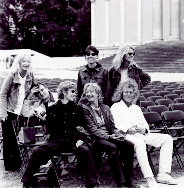 Der Harem cropped for smaller screens This is a derivative image. I have taken an image already on wikipedia and cropped the right ca 40% in order to make the image slightly more usable on narrow screened devices. I would hesitate to crop it further, however, since the resolution is not really sharp enough to permit reasonable portraits of each of the people in it to be extracted individually